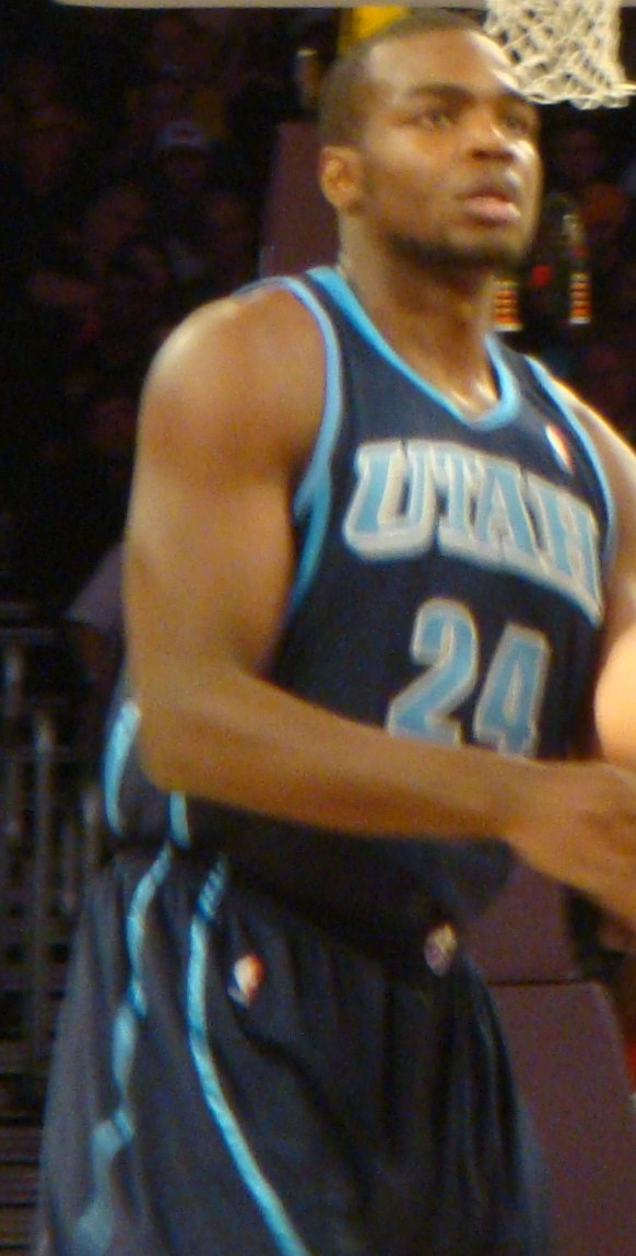 Paul Millsap of the Utah Jazz pictured in play during a 2008-09 away game.